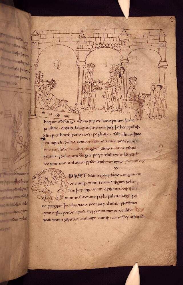 'The Cædmon Manuscript': parts of Genesis, Exodus and Daniel in Old English verse, illustrated with Anglo-Saxon drawings, c. A.D. 1000.; 63